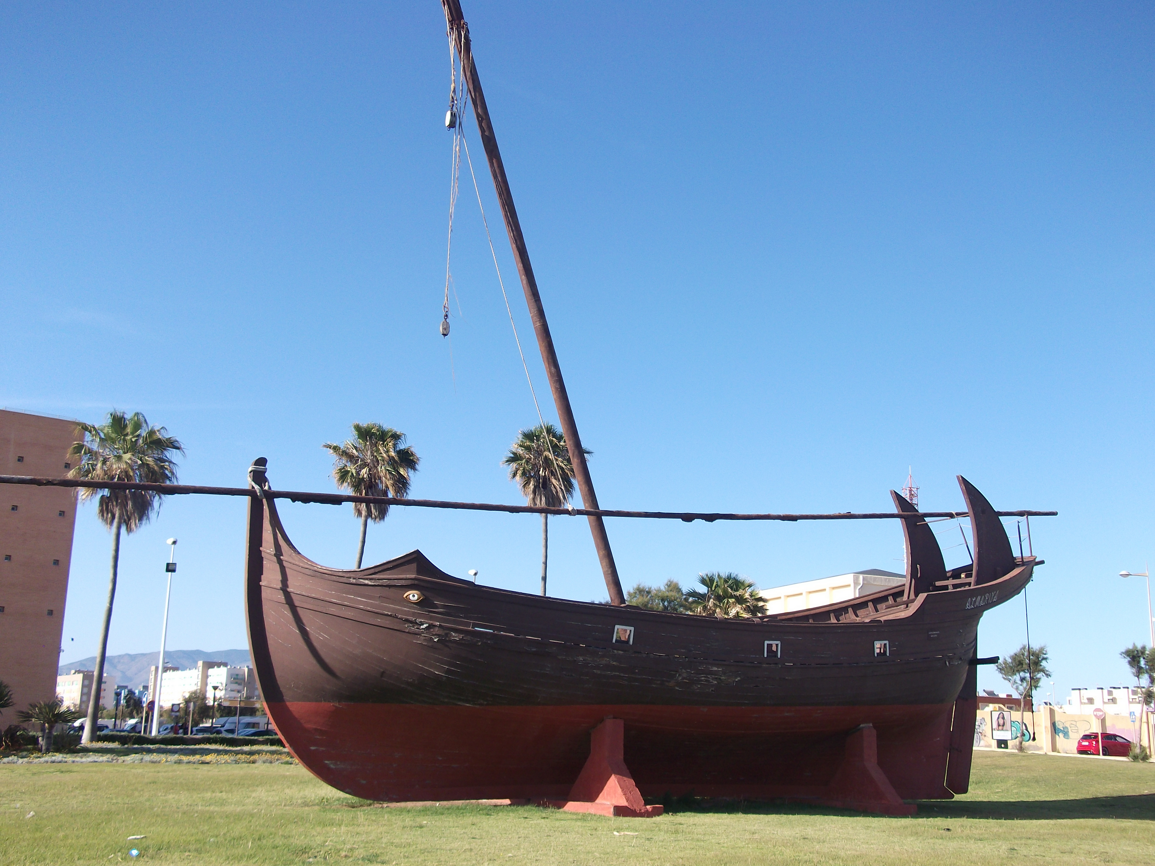 Replica of a Spanish-Muslim ship from the X-XIV centuries.